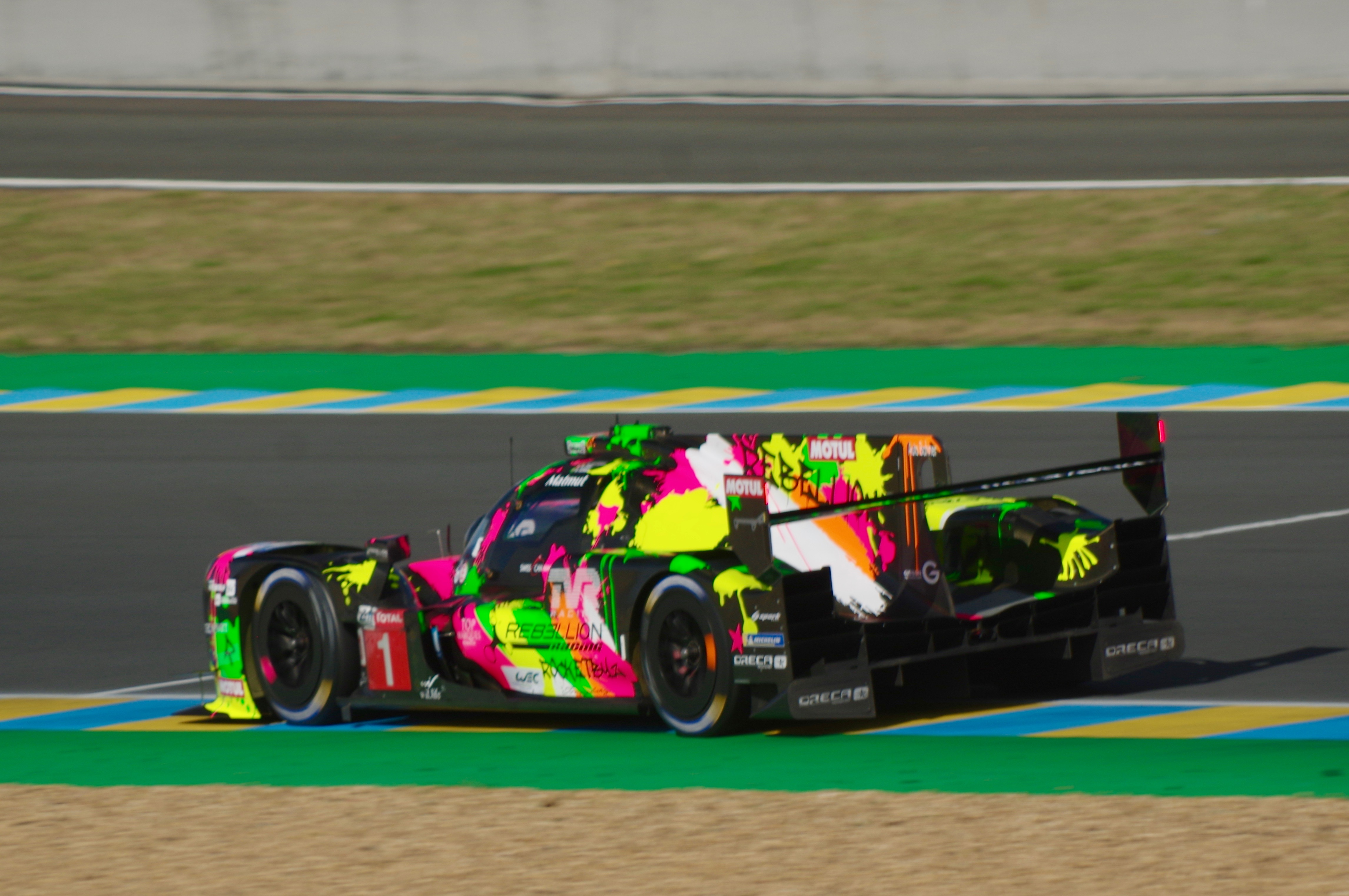 Rebellion Racing's Rebellion R13 Gibson No. 1 driven by Neel Jani, André Lotterer and Bruno Senna